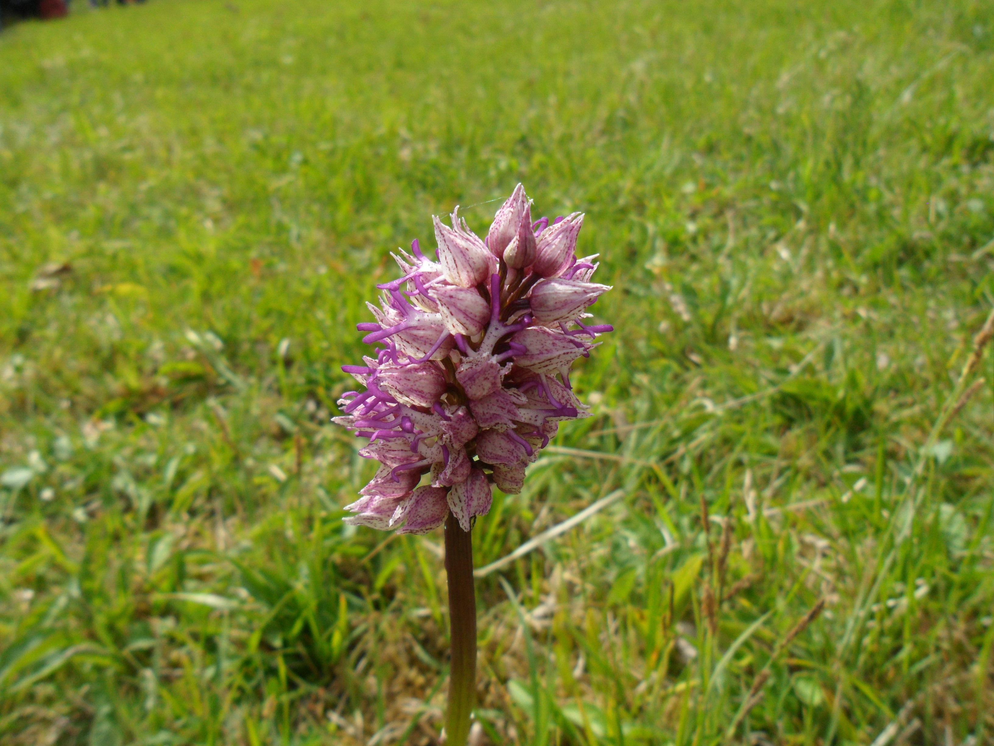 Hybride entre Orchis simia et Orchis purpurea. Gros Tienne, Belgique.